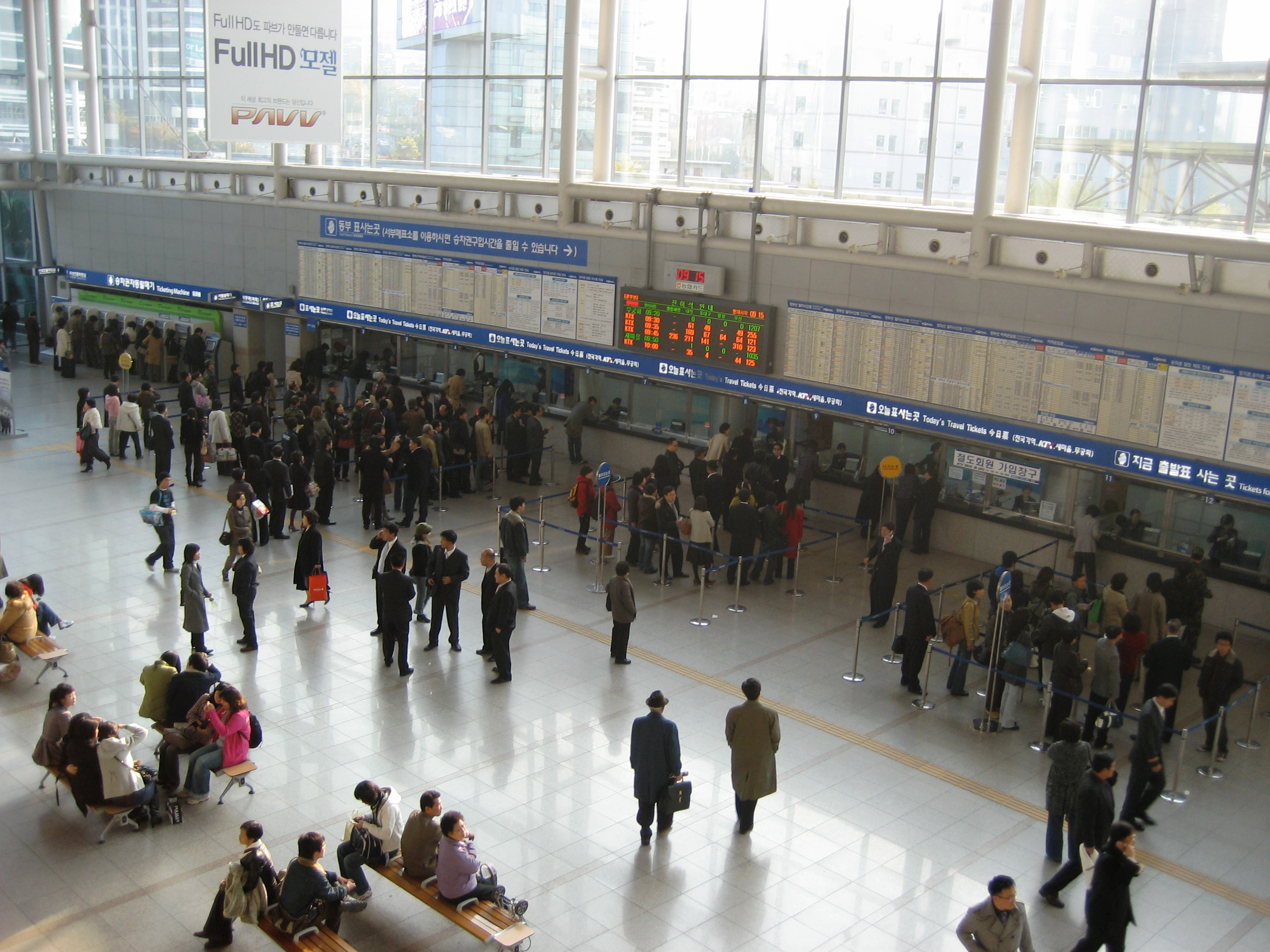 KNR Seoul Station, Ticket counter.